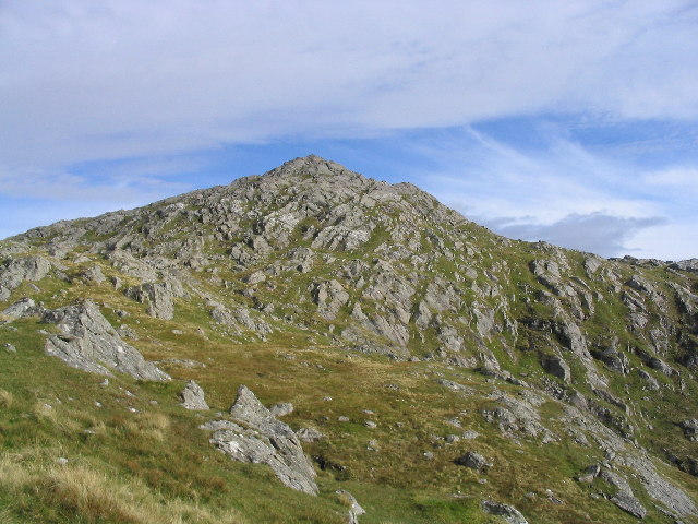 Beinn Resipol. The rocky summit of Beinn Resipol dominates the immediate surroundings and has fine views over Loch Sunnart to the islands beyond.